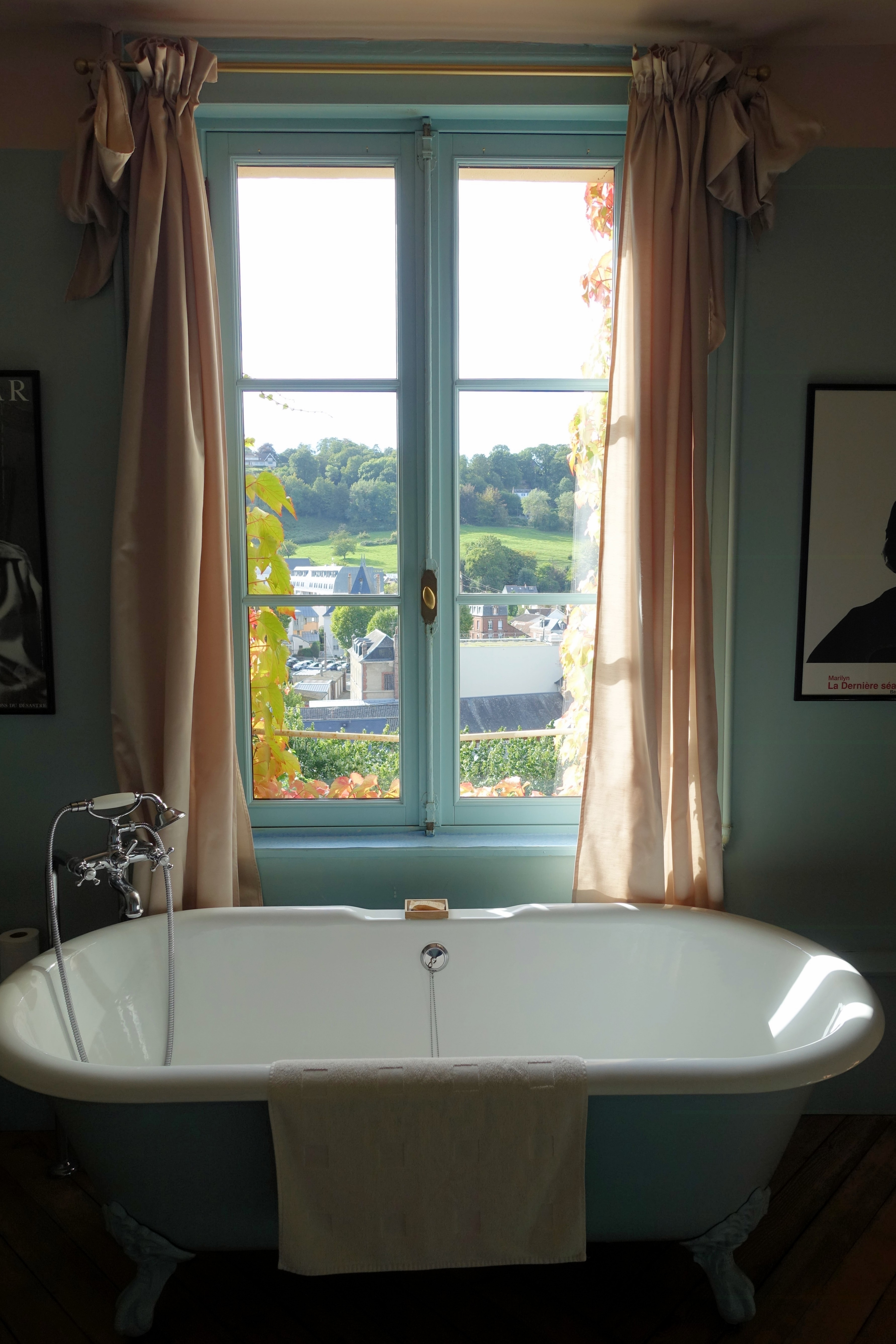 Bathroom in a hotel in Honfleur, Normandy, France